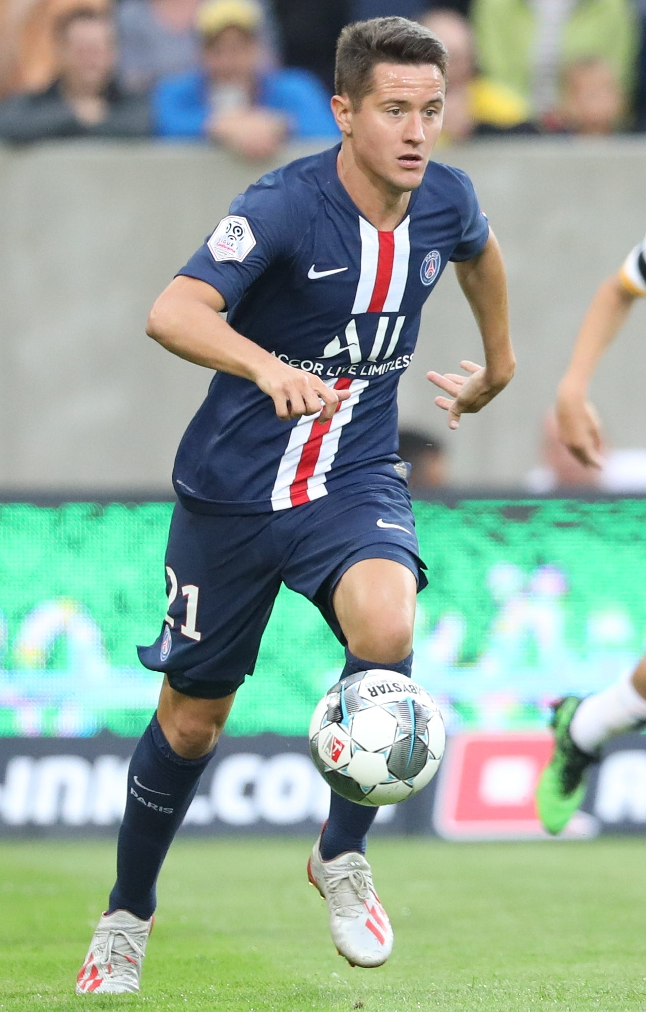 Test game, 17th July 2019: SG Dynamo Dresden vs. Paris Saint-Germain 1:6 (0:3)